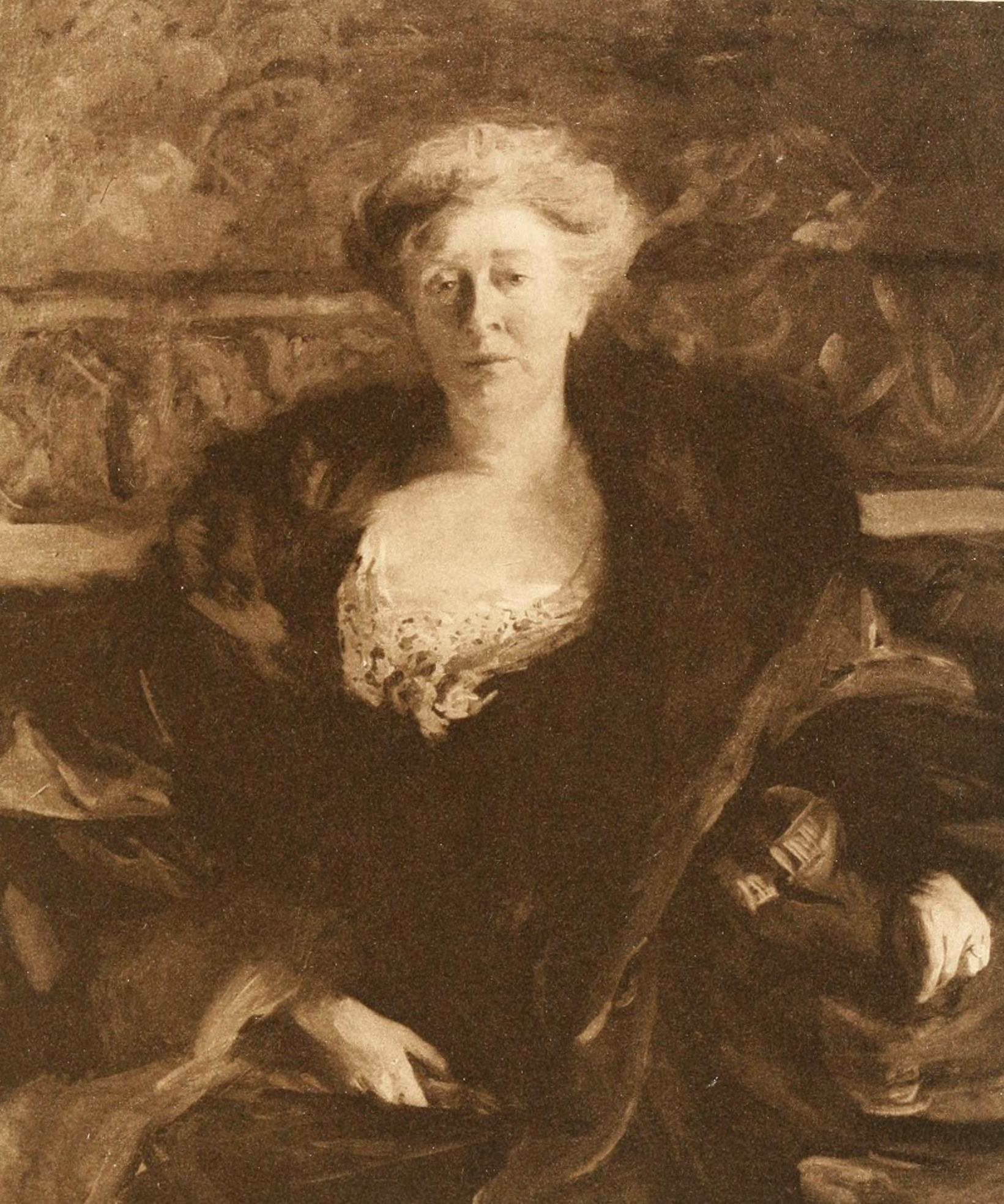 Title: Eight journeys abroad Year: 1917 (1910s) Authors: Rosengarten, Mary D. Richardson, 1846-1913 Rosengarten, Frank H Subjects: Europe -- Description and travel Algeria -- Description and travel Palestine -- Description and travel Egypt -- Description and travel Publisher: Philadelphia : printed for private circulation by J.B. Lippincott Co. Text Appearing Before Image: FROM THE OIL PORTRAIT BY ALICE KENT STODDARD